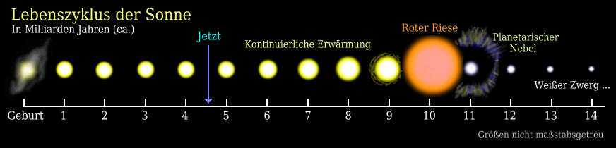 Life-cycle of the Sun.